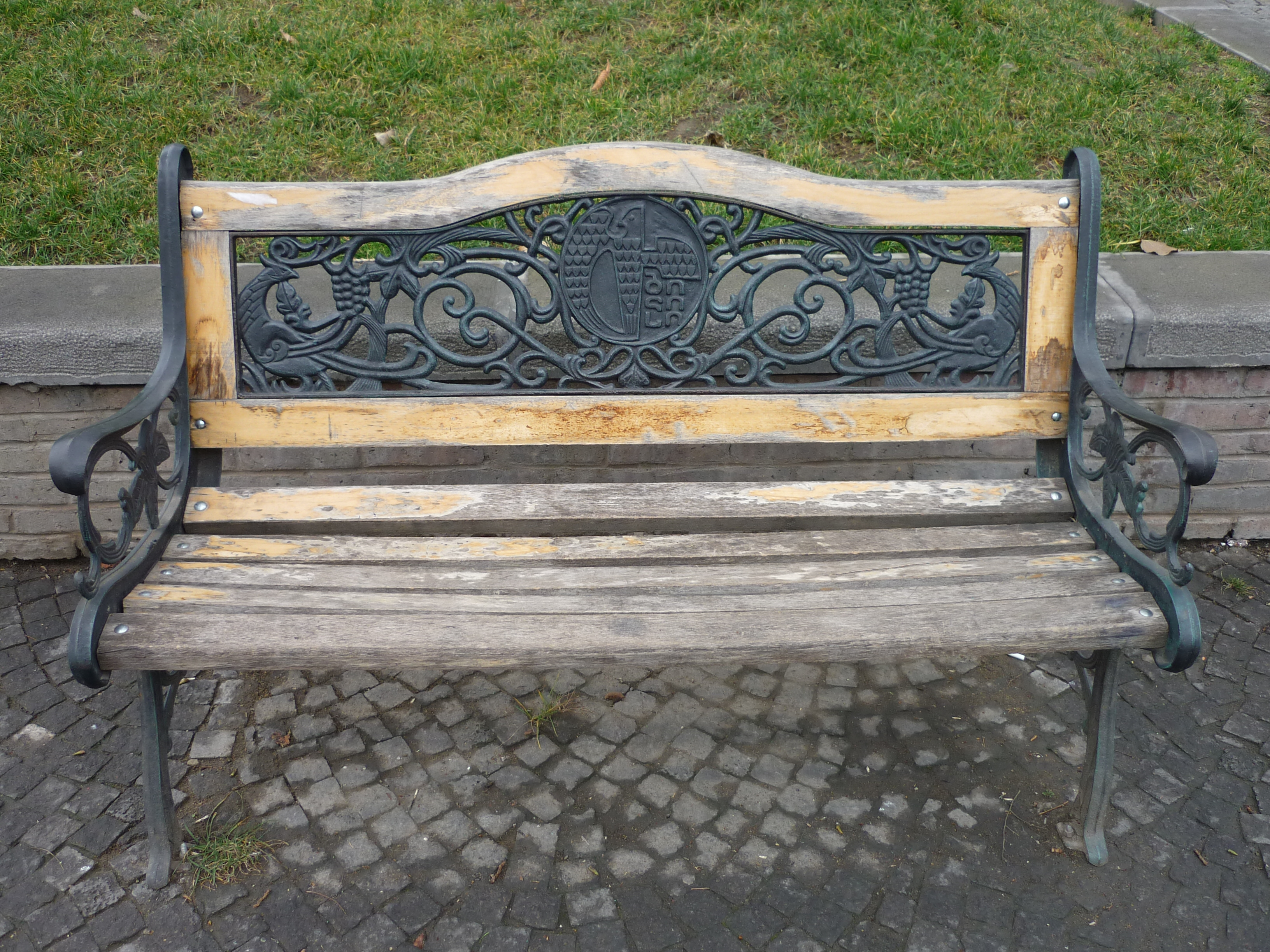 Bench, Baratachvili street, Tbilisi, Georgia